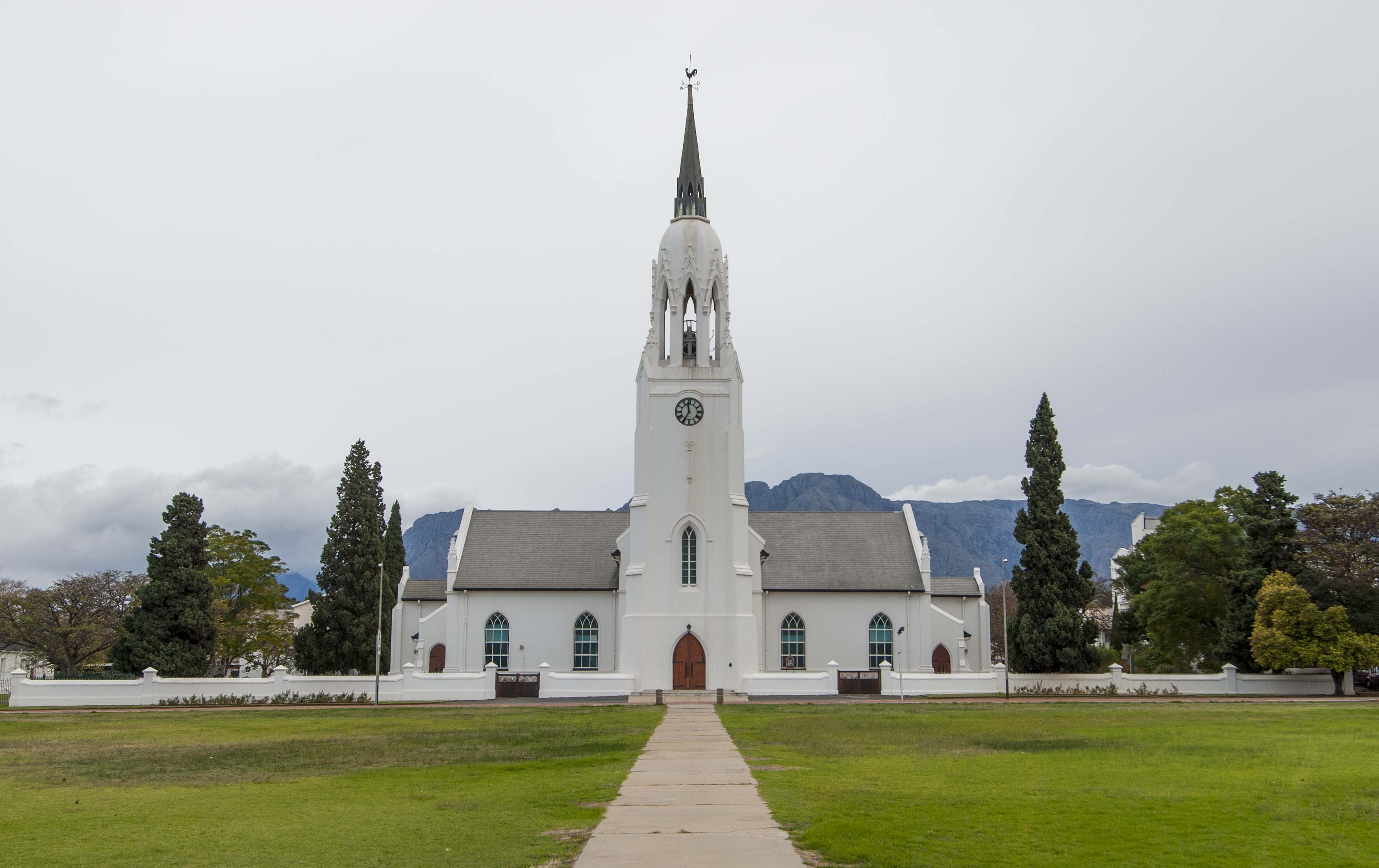 This media shows a South African Protected Site with SAHRA file reference 9/2/110/0060.